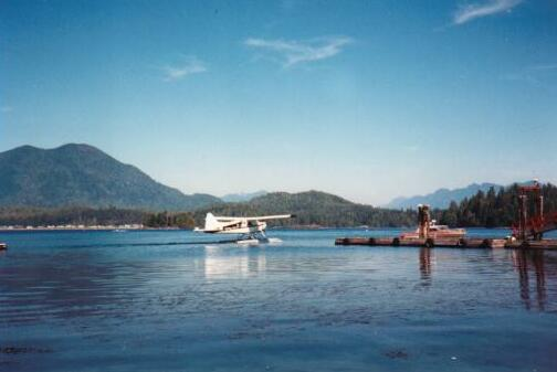 Clayoquot Sound, near Tofino